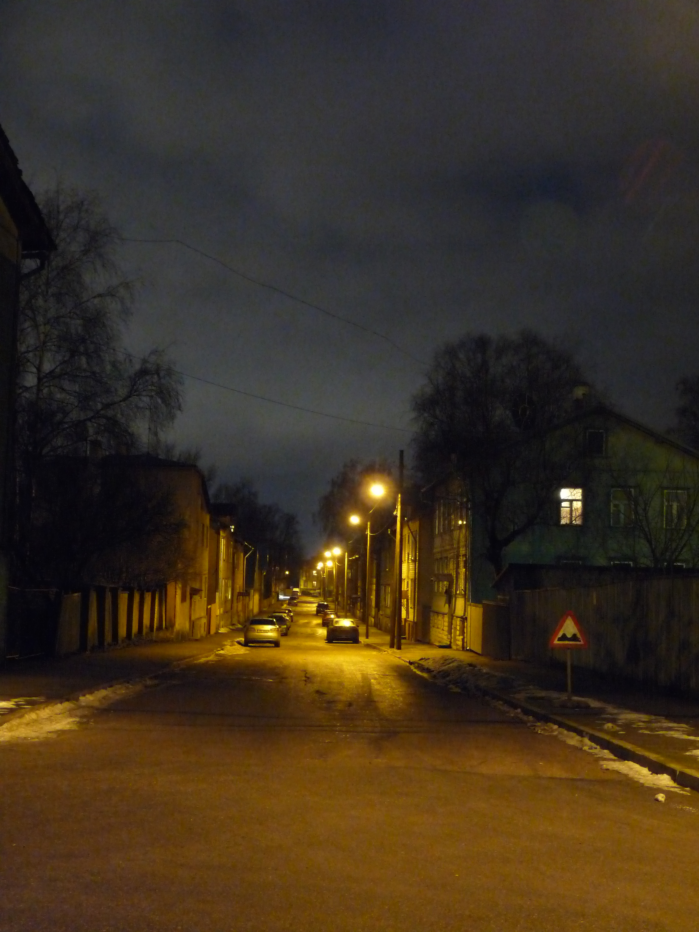 Timuti street in Tallinn, Estonia